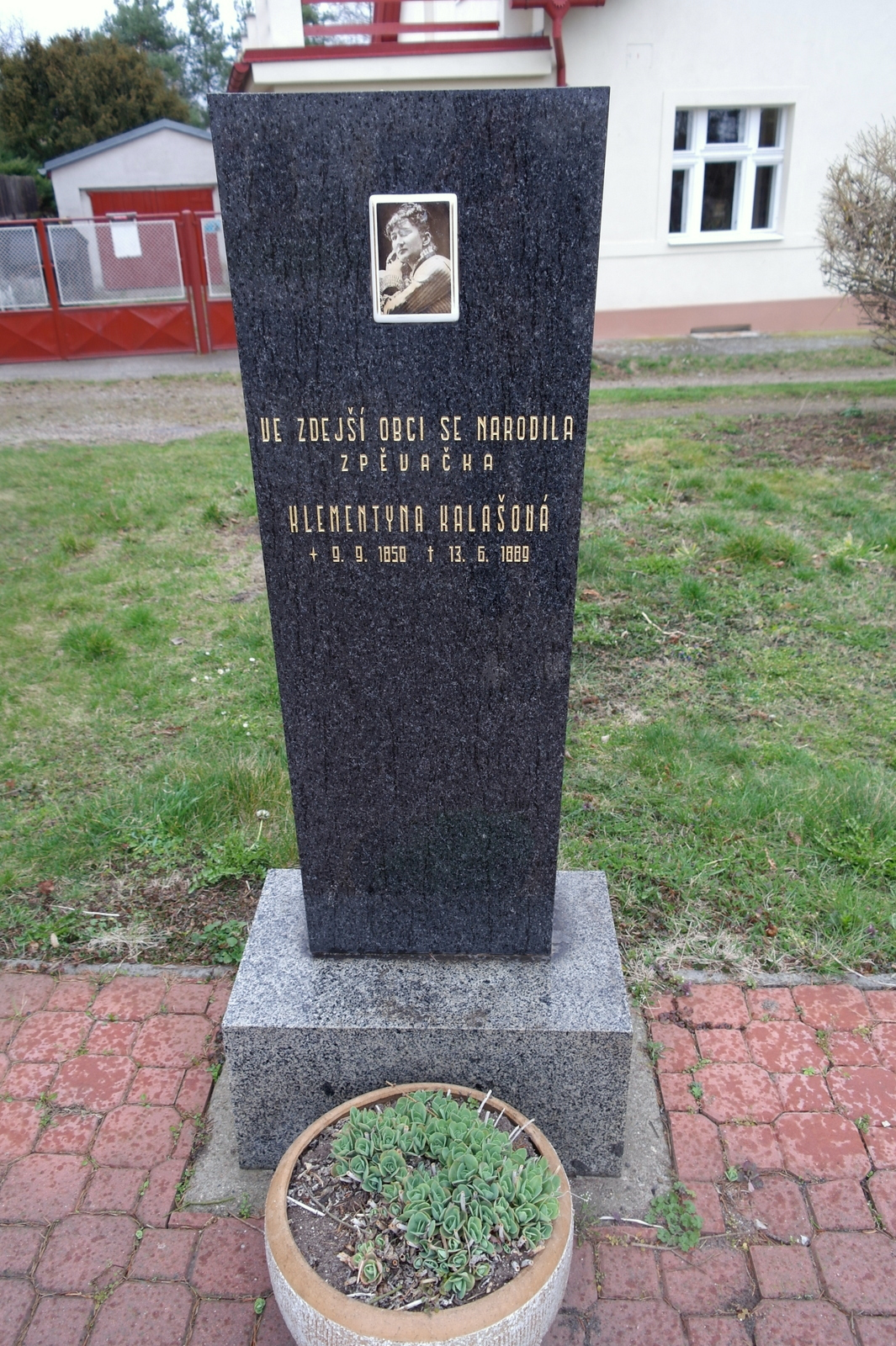 Monument to opera singer Klementina Kalašová, Horní Beřkovice, Litomerřce District.